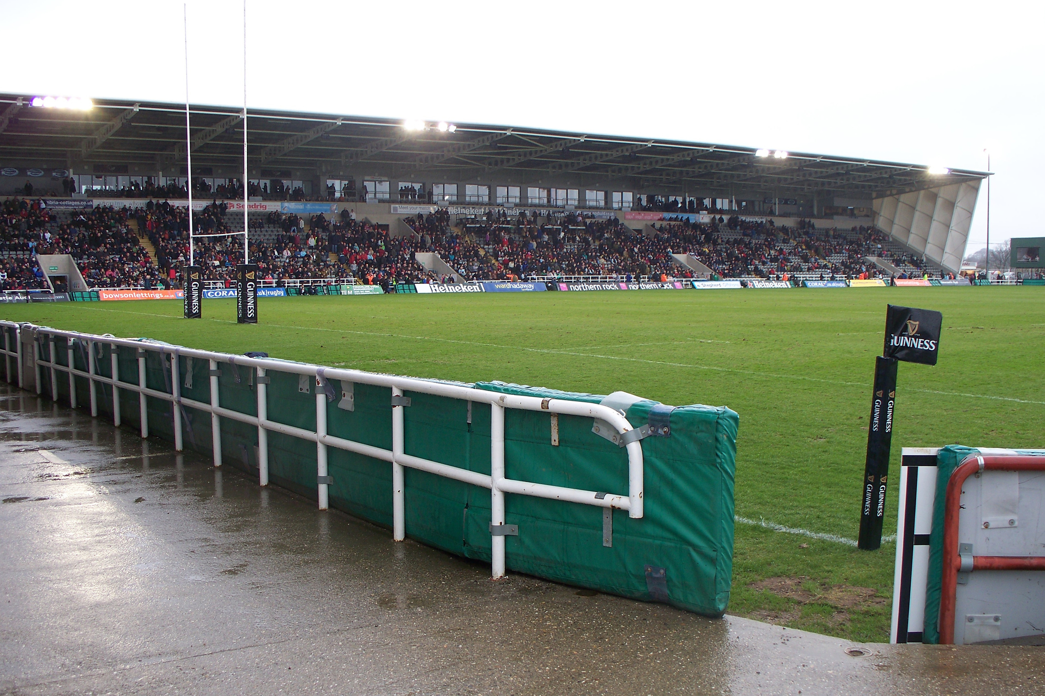 The Home of Newcastle Rugby Club (Newcastle Falcons)Just before kick off at a recent Guinness Premiership game. The all seat West stand taken from the south east corner of the ground, from just in front of the 'smokers corner'. Yes we have such a thing!!